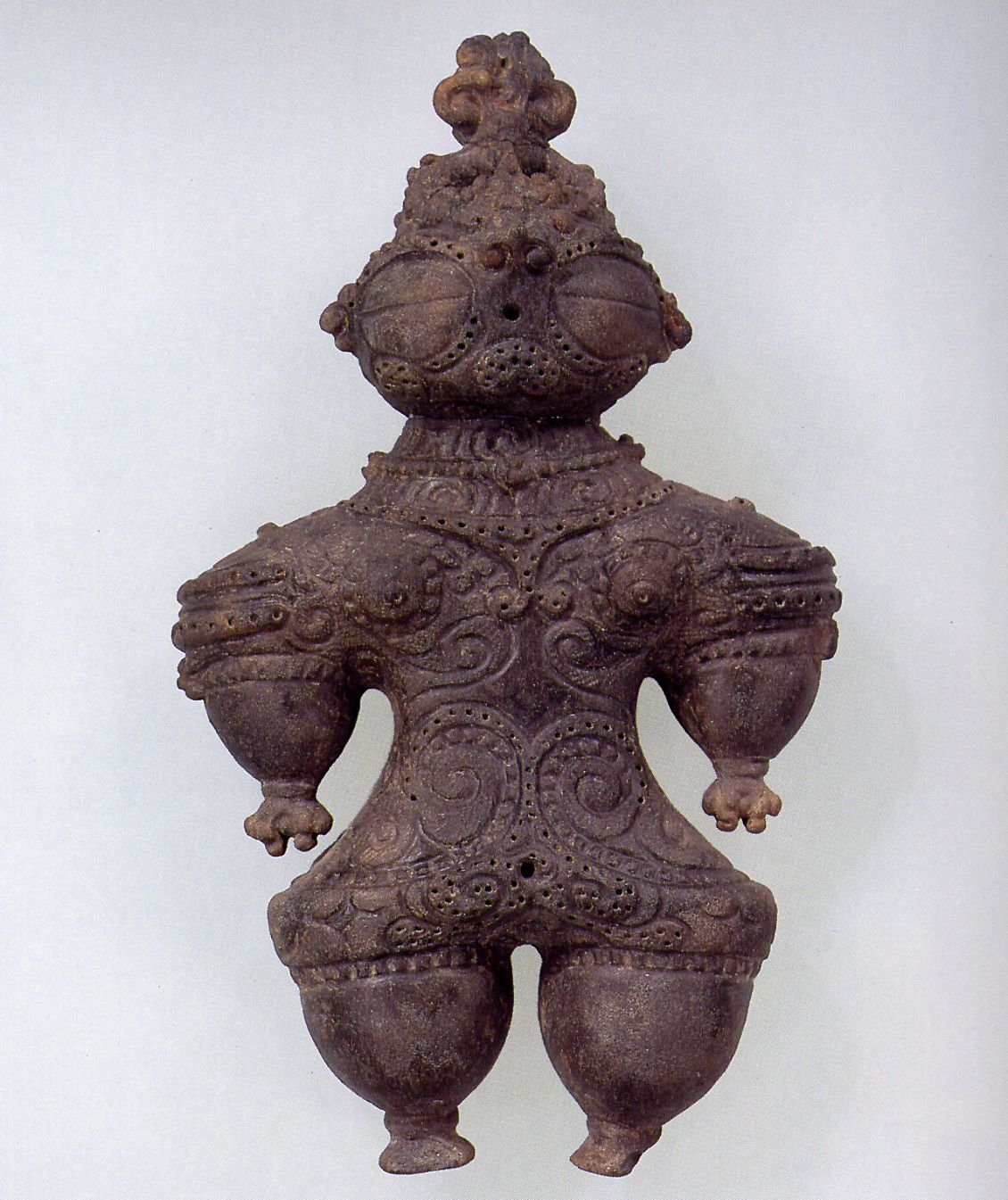 Dogu, end of Jomon period; from the Ebisuda Site in Osaki, Miyagi [1]